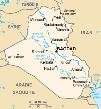 Map in French of Iraq